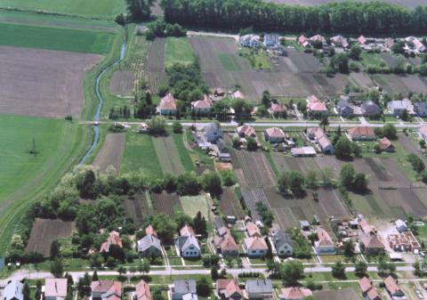 Rábatamási, Hungary, aerialphotography